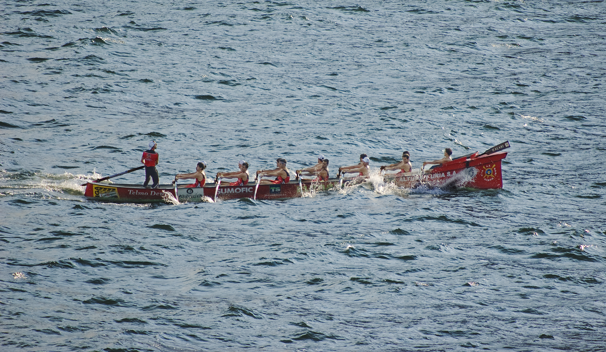 Classification run for the Flag of La Concha competition. The seven best times classificated for the race held on the first two weekends of September 2007. This team is Aita Mari Arraun Elkartea, from Zumaia, which with a time of 21'20.24" did 9th.